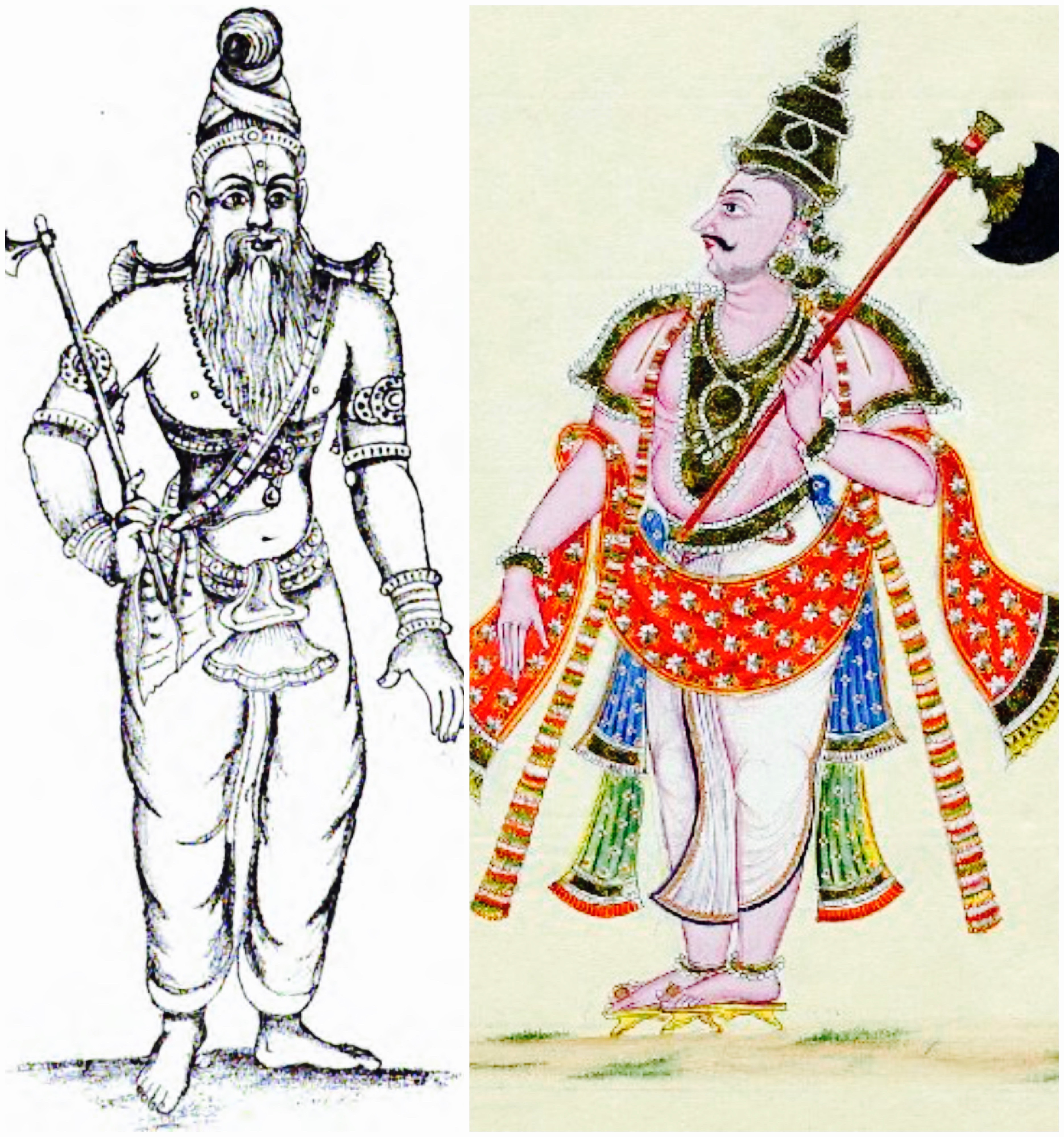 Derivative work on two wikimedia images available with creative commons license: Parasu Rama.png Parashurama.jpg